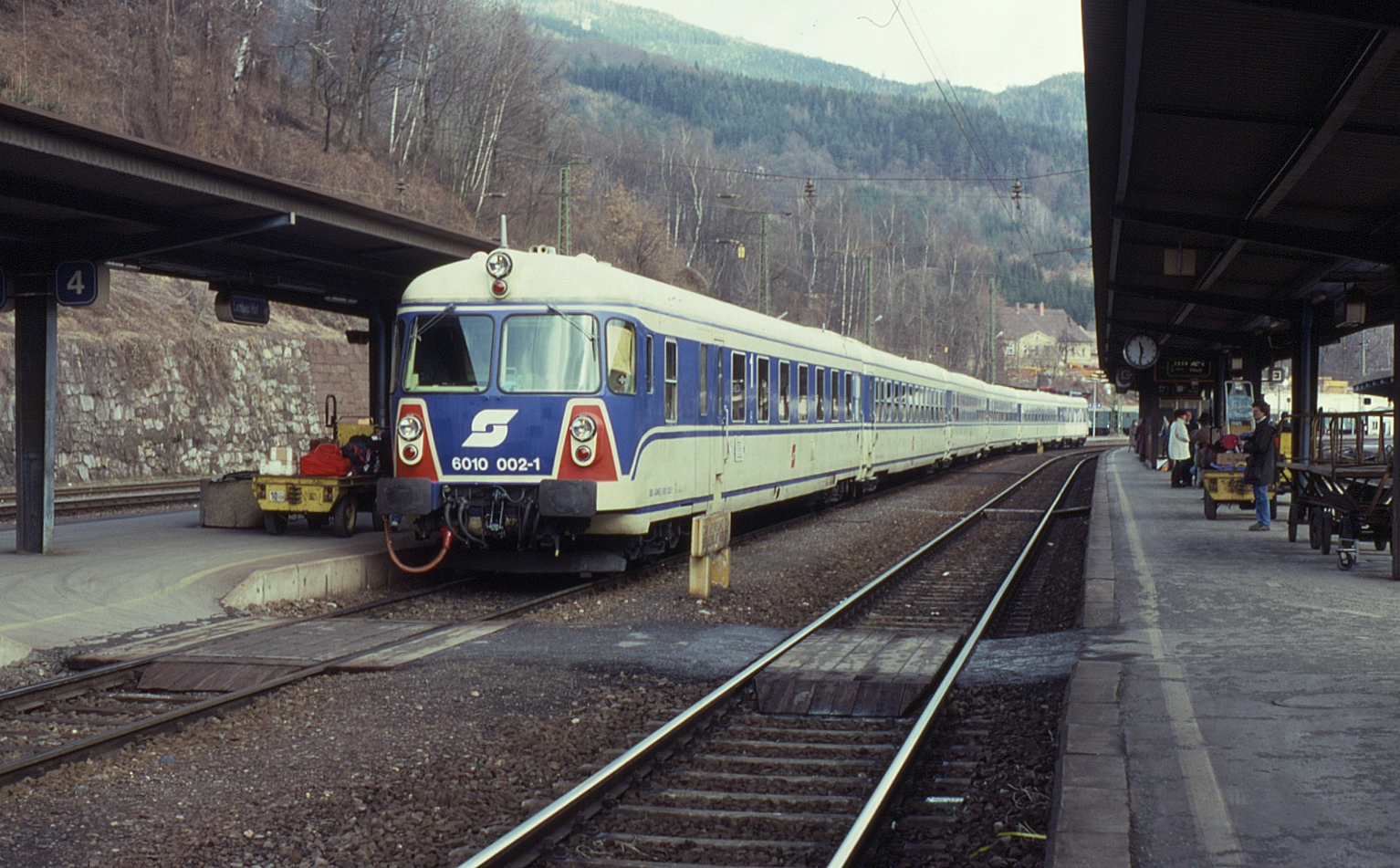 Undoubtedly one of the most stylish EMUs to run around in Europe were the 29 x 6-car class 4010s. Carrying several liveries over their life, the example shown here at Leoben Hbf on 14 February 1992 is the final one before withdrawal. All sets were withdrawn by 2008.